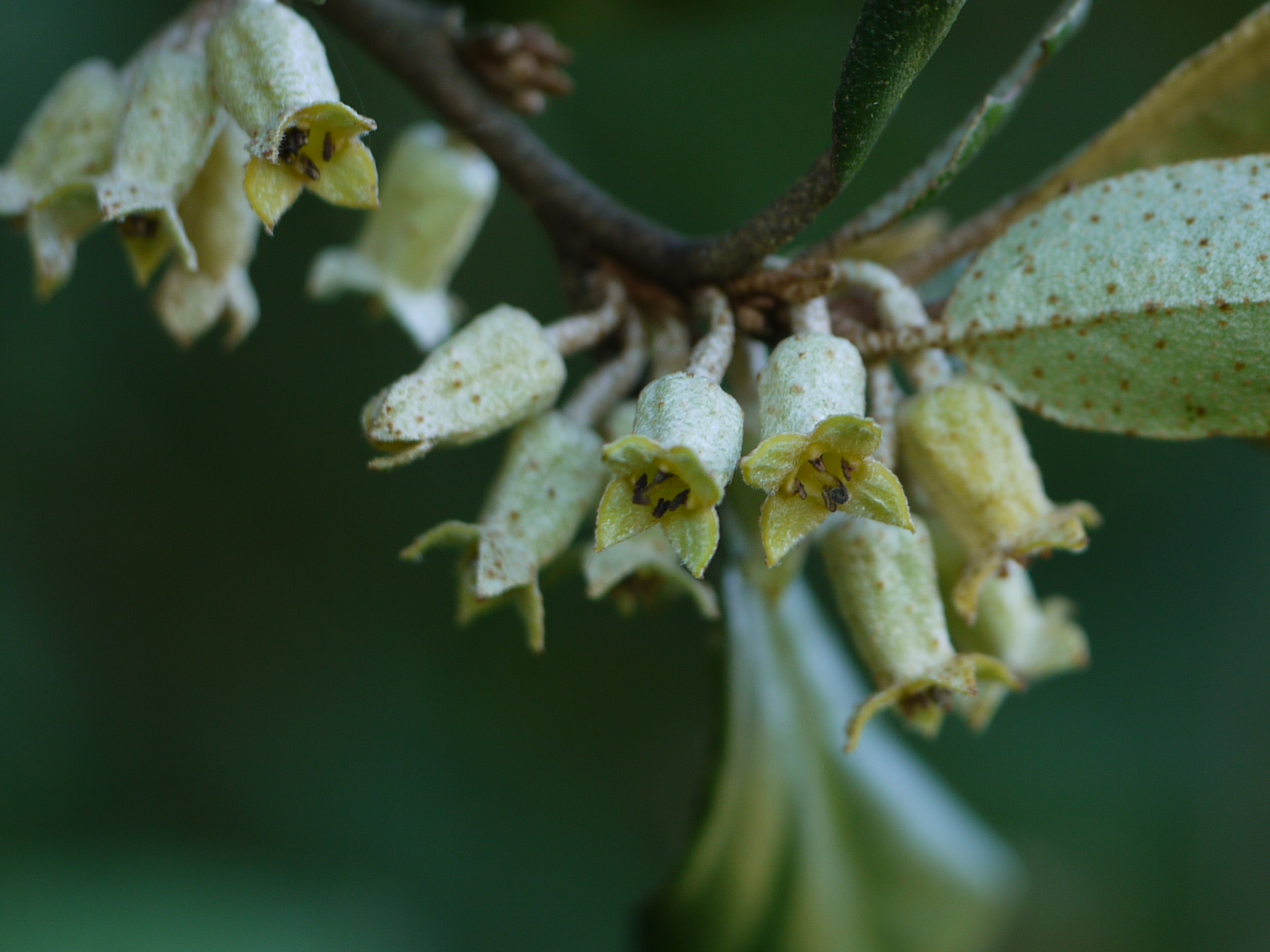 Elaeagnaceae (oleaster family) » Elaeagnus conferta Roxb. el-ee-AG-nus -- Greek: elaia (olive), agnos (pure), possibly referring to the fruit ... Dave's Botanary KON-fer-tuh or kon-FER-tuh -- crowded ... Dave's Botanary commonly known as: bastard oleaster, snake fruit, wild olive • Bengali: গুয়ারা guara • Garo: chhokhua • Jaintia: dieng-snlangi • Kannada: ಹಲಗೆ ಬಳ್ಳಿ halage balli, ಹೆಜ್ಜಾಲ hejjala, ಹಿಟ್ಟೆಲೆ hittele, ಹುಣಸೆ ಬಳ್ಳಿ hunase balli • Khasi: soh-shang • Konkani: आंबगूळ ambgul • Malayalam: അങ്കോലാങ്ക angolanga, അങ്കോലപ്പഴം angolapazham, അങ്കോലപ്പുളി angolapulli, കാട്ടുമുന്തിരി kattumunthiri • Manipuri: হৈযাঈ heiyai • Marathi: आंबगूळ amgul, नुरगी nurgi • Tamil: குரங்குப் பழம் kurankup-palam Distribution: s China, Indian subcontinent, s-e Asia References: Flowers of India • India Biodiversity Portal • ENVIS - FRLHT • Further Flowers of Sahyadri by Shrikant Ingalhalikar